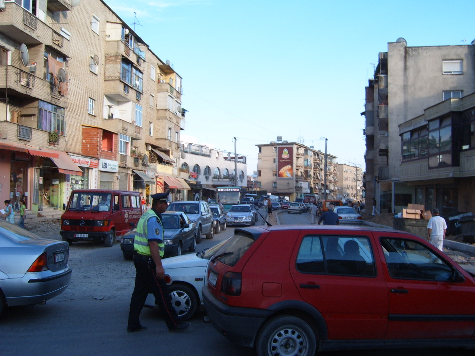 Rush hour in Tirana